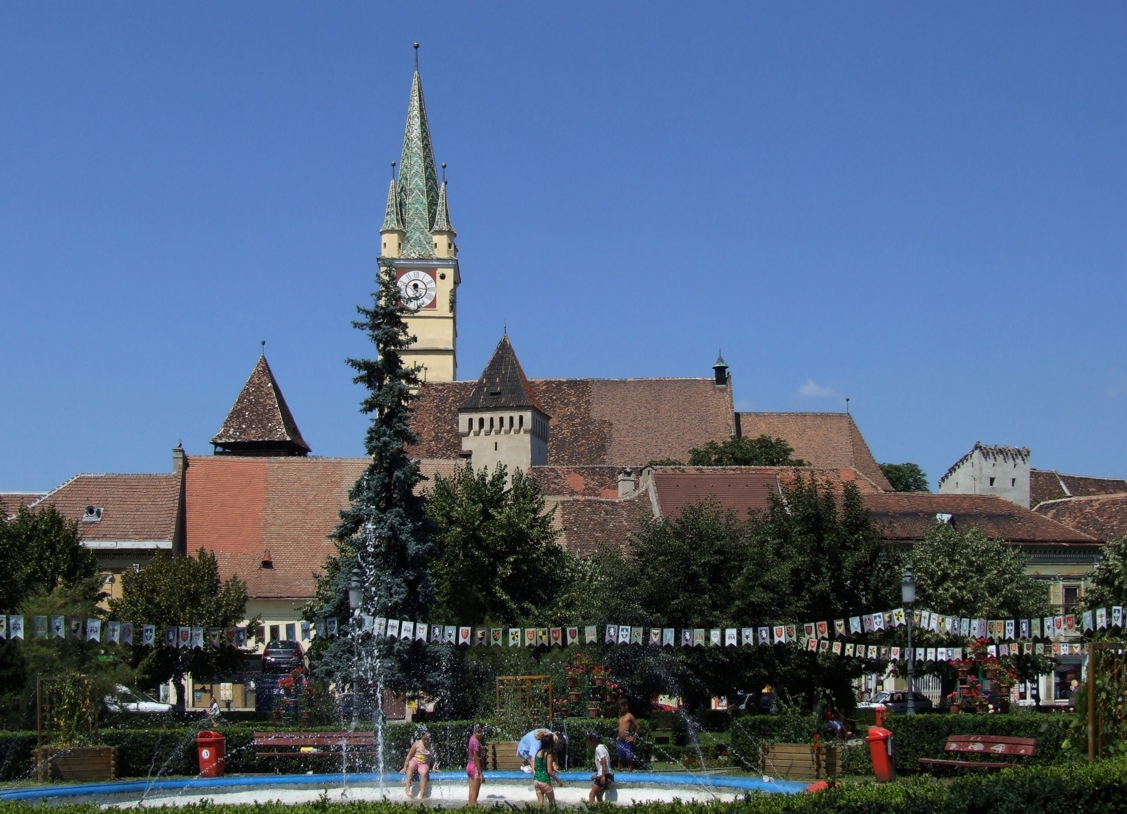 Mediaş (Mediasch, Medgyes) - city center with St. Margaret Church